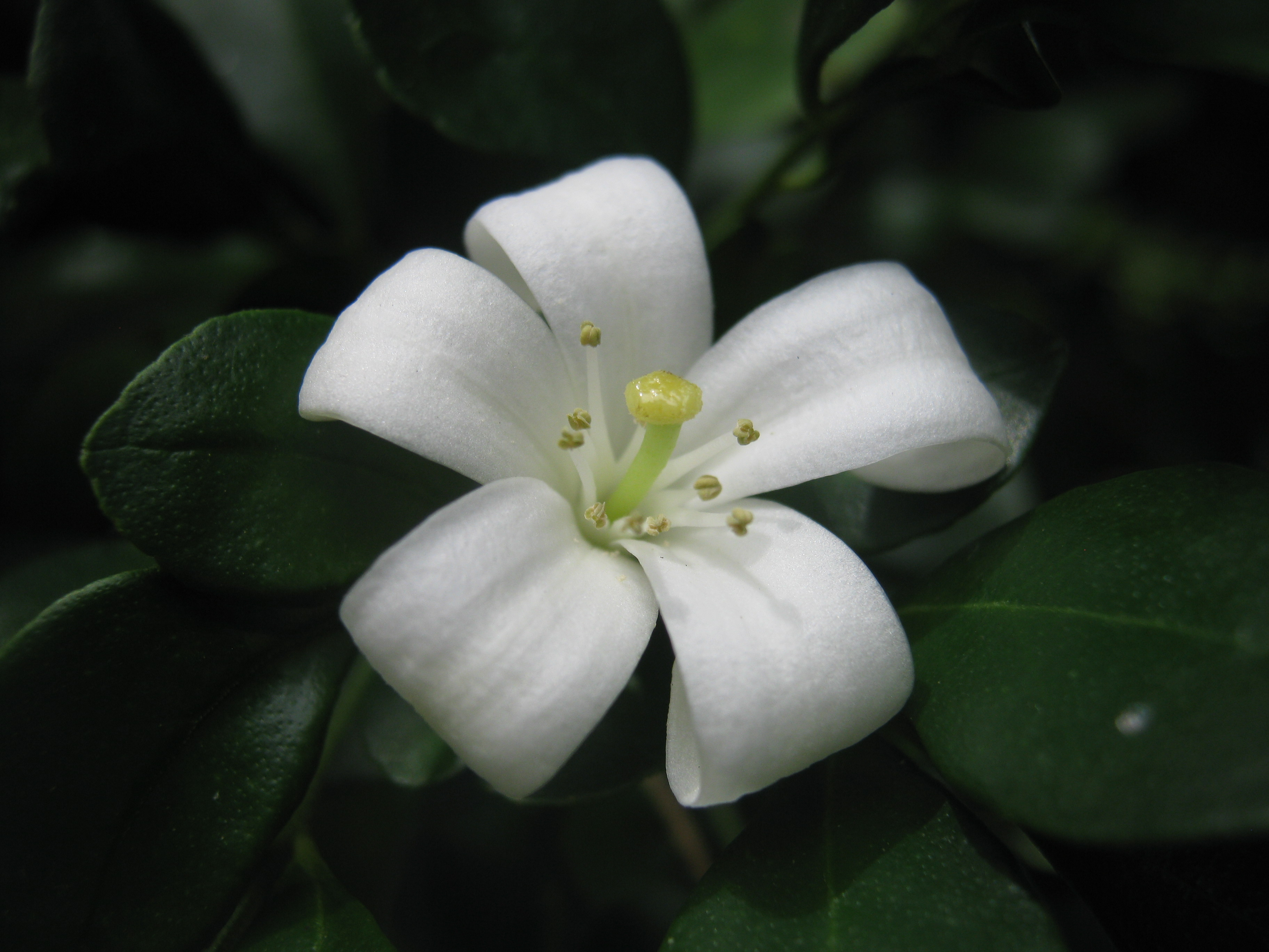 Flor blanca de la planta Murraya Paniculata, más conocida como Azahar de la India o Jazmín naranja